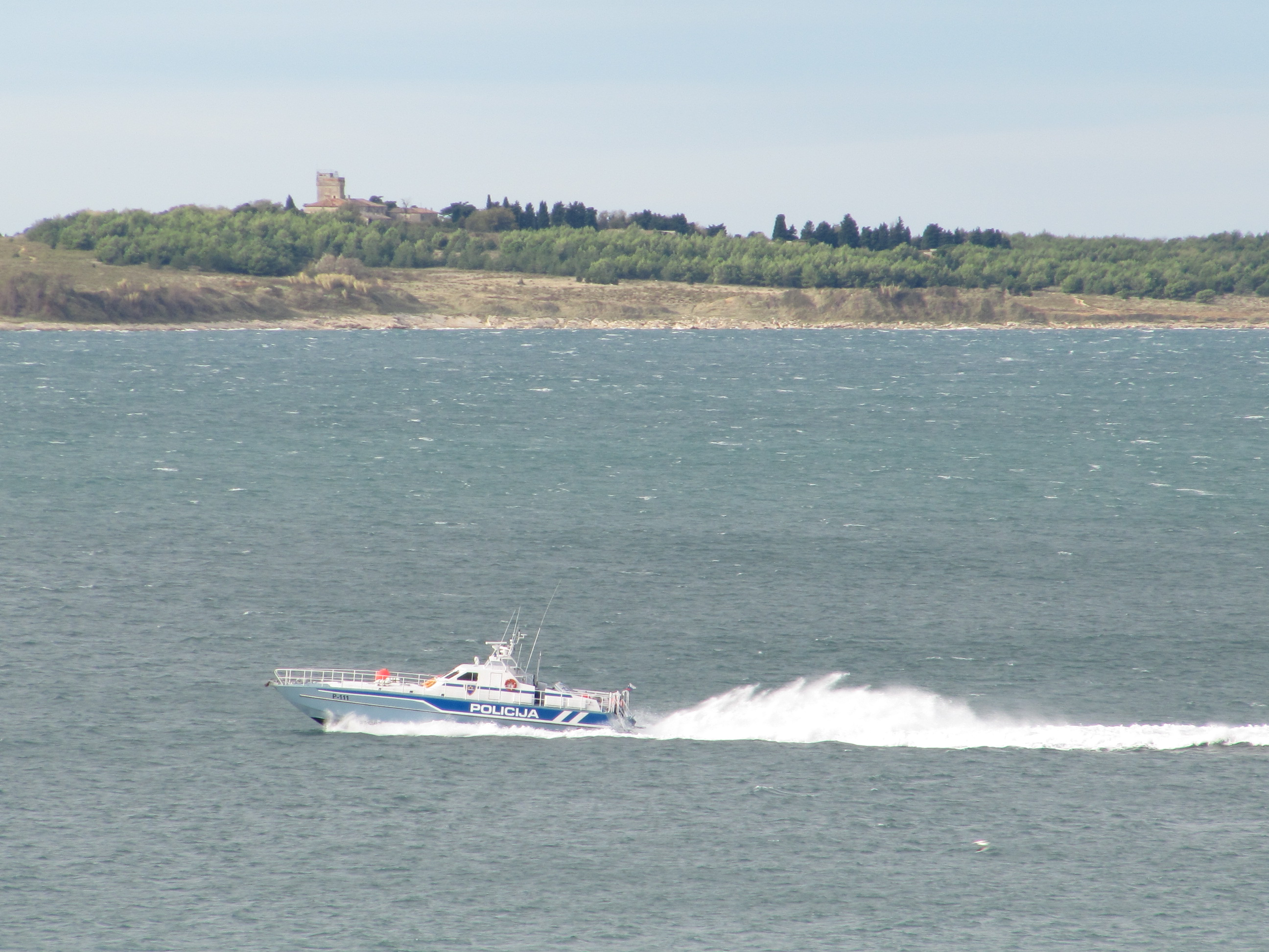 Piran bay (Piranski zaliv), with P111 - slovenian police/coast guard boat